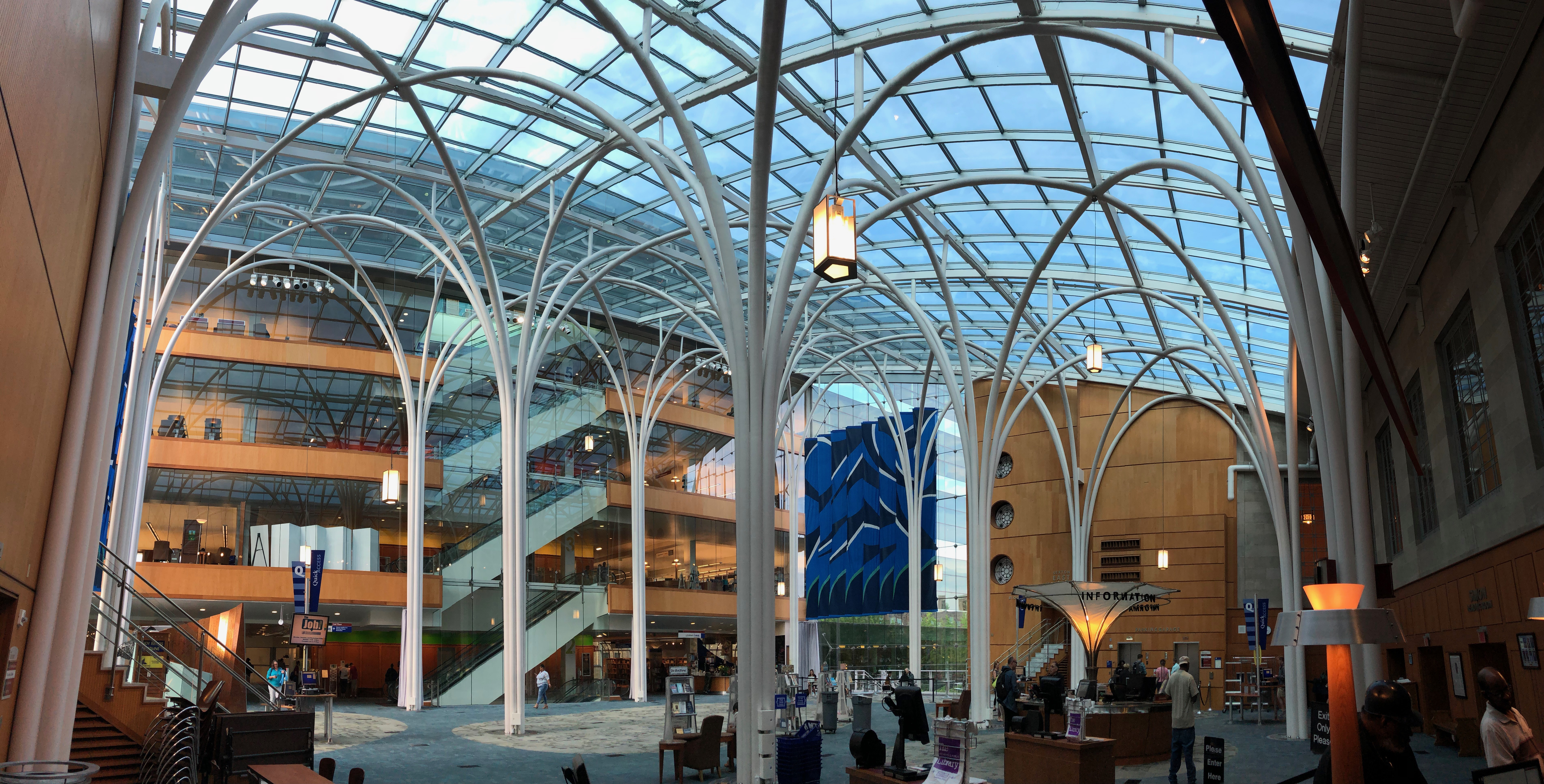 This photo was captured from the southwest corner of the Indianapolis Public Library's Central Library atrium. The original building is seen at right, with new construction in the foreground.